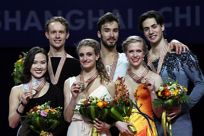 The ice dancing podium at the 2015 World Championships. From left: Madison Chock / Evan Bates (2nd), Gabriella Papadakis / Guilaume Cizeron (1st), Kaitlyn Weaver / Andrew Poje (3rd).